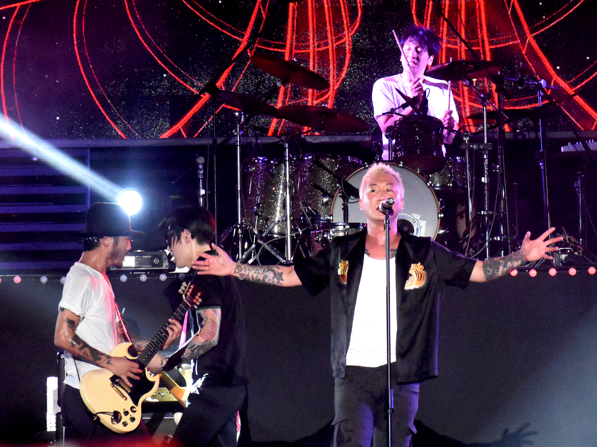 No Brain at the 23rd Busan Sea Festival in Haeundae on August 3, 2018.